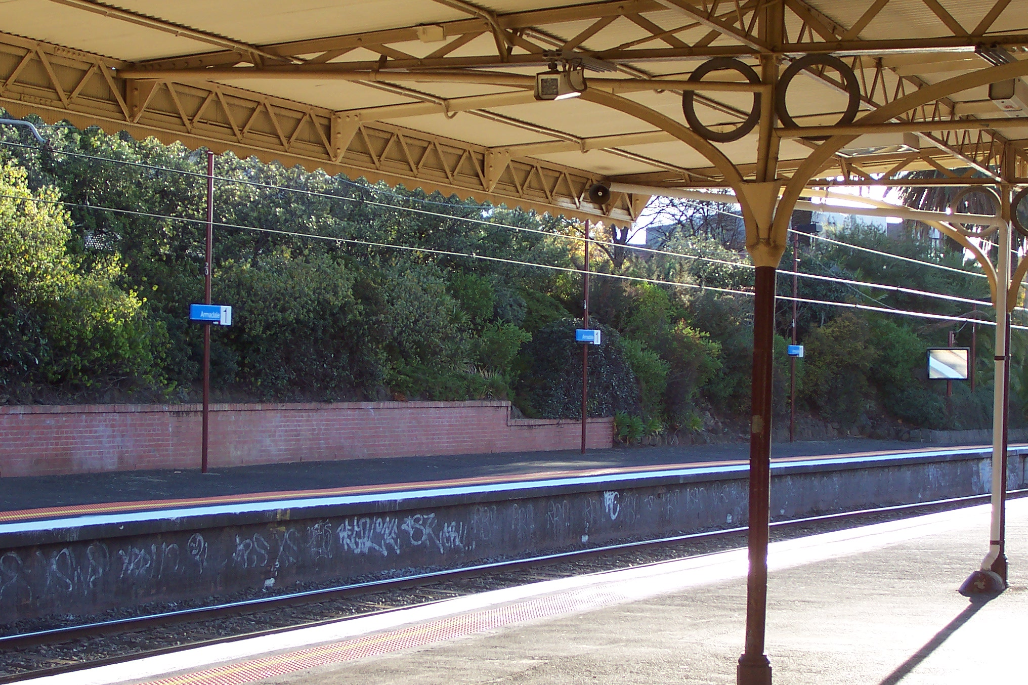 Subject: Armadale, Victoria train station Author: PageantUpdater Date: 25 June 2006